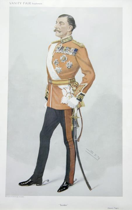 Men of the Day No.1127: Caricature of Gen Sir AHF Paget. Caption reads: "Soudan"